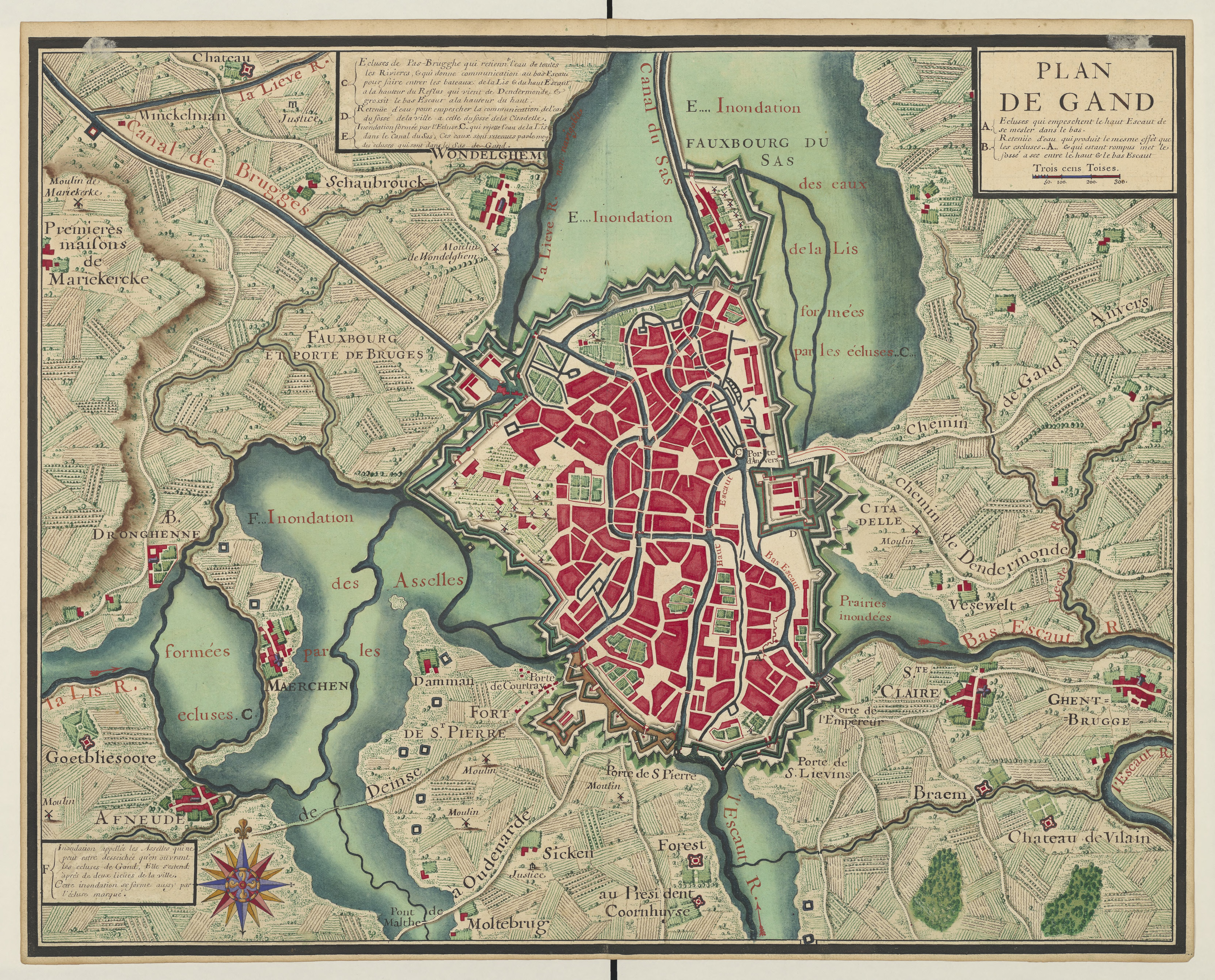 Plan de Gand, 1678